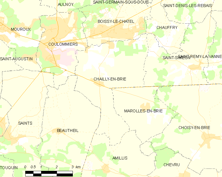 Map of French municipality Chailly-en-Brie